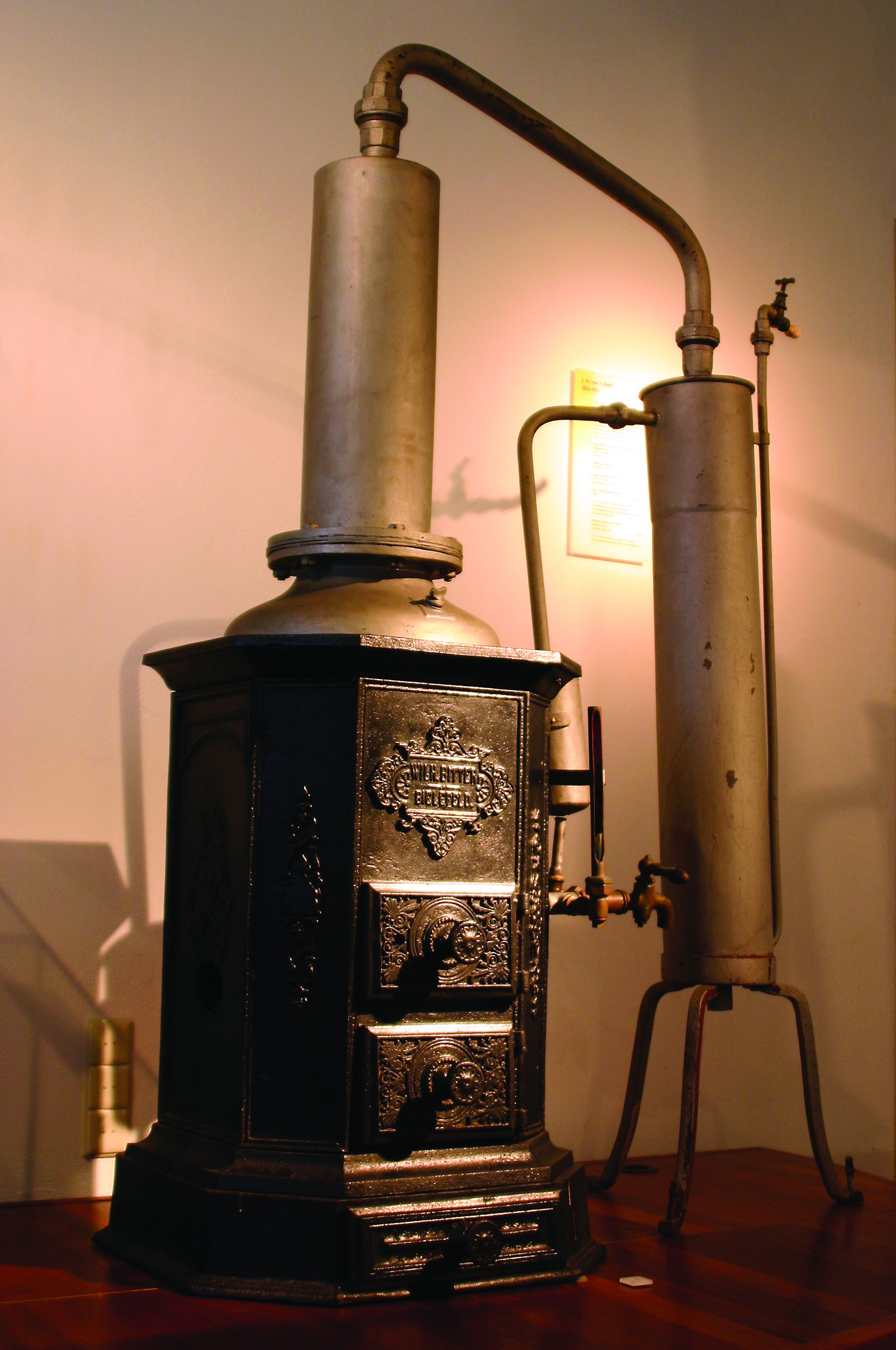 Museum Boerhaave, Leiden - Distilling apparatus for water object id (inventary #): V10194 dimensions: w 121 cm h: 174 cm d: 66 cm period: 1860